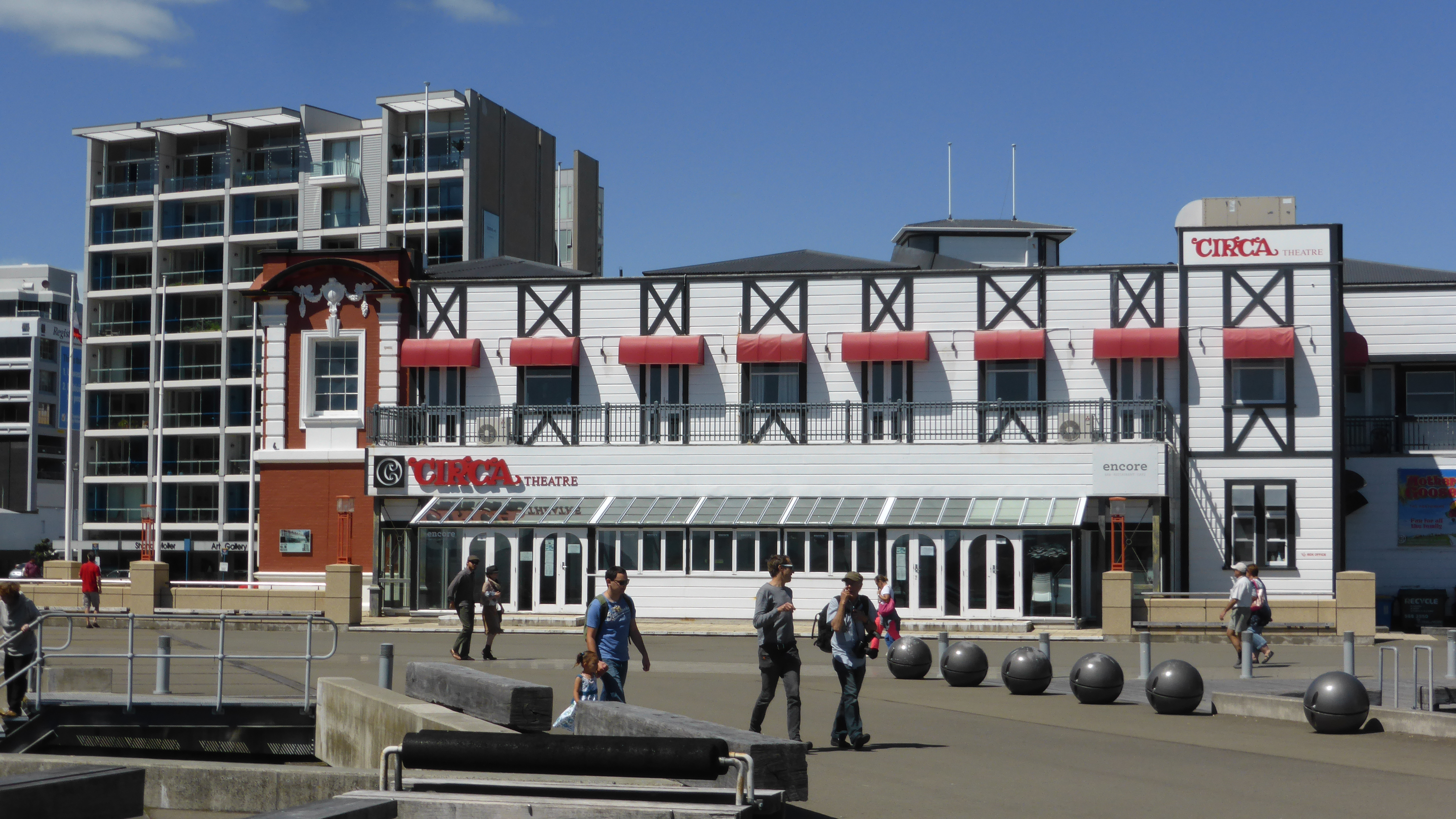 Circa Theatre, Wellington, New Zealand